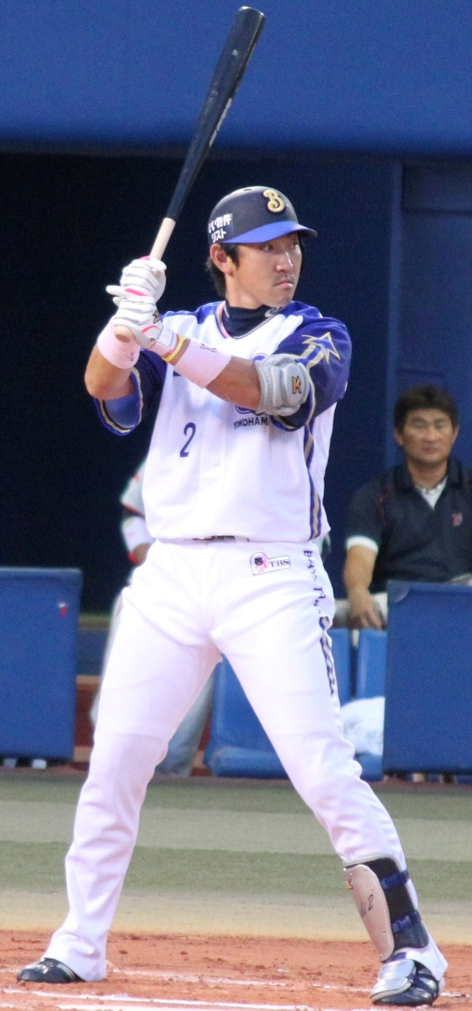 Seiichi Uchikawa, outfielder of the Yokohama BayStars, at Yokohama Stadium.